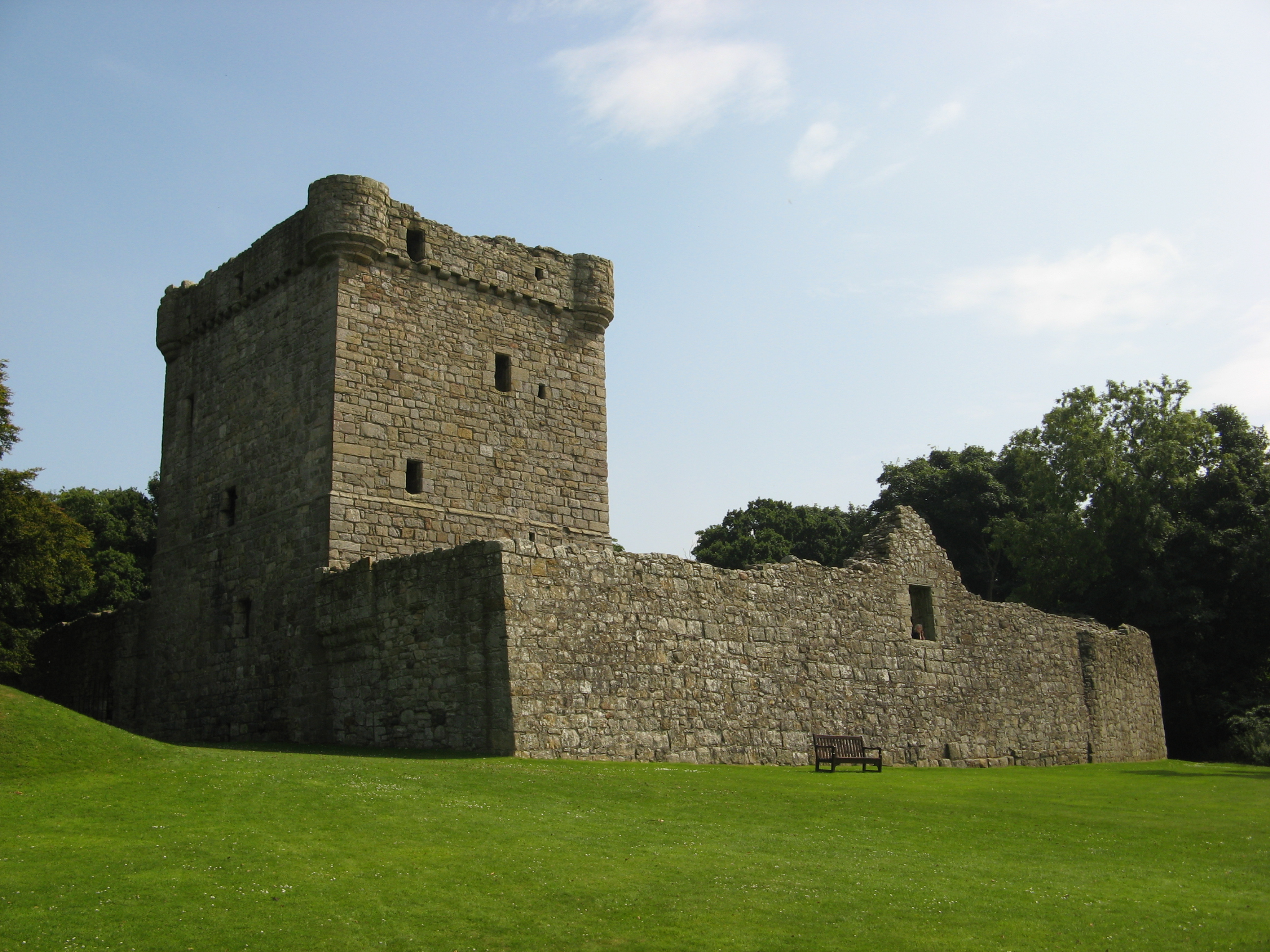 Lochleven Castle, Kinross, Scotland. Exterior view of the west wall and keep.